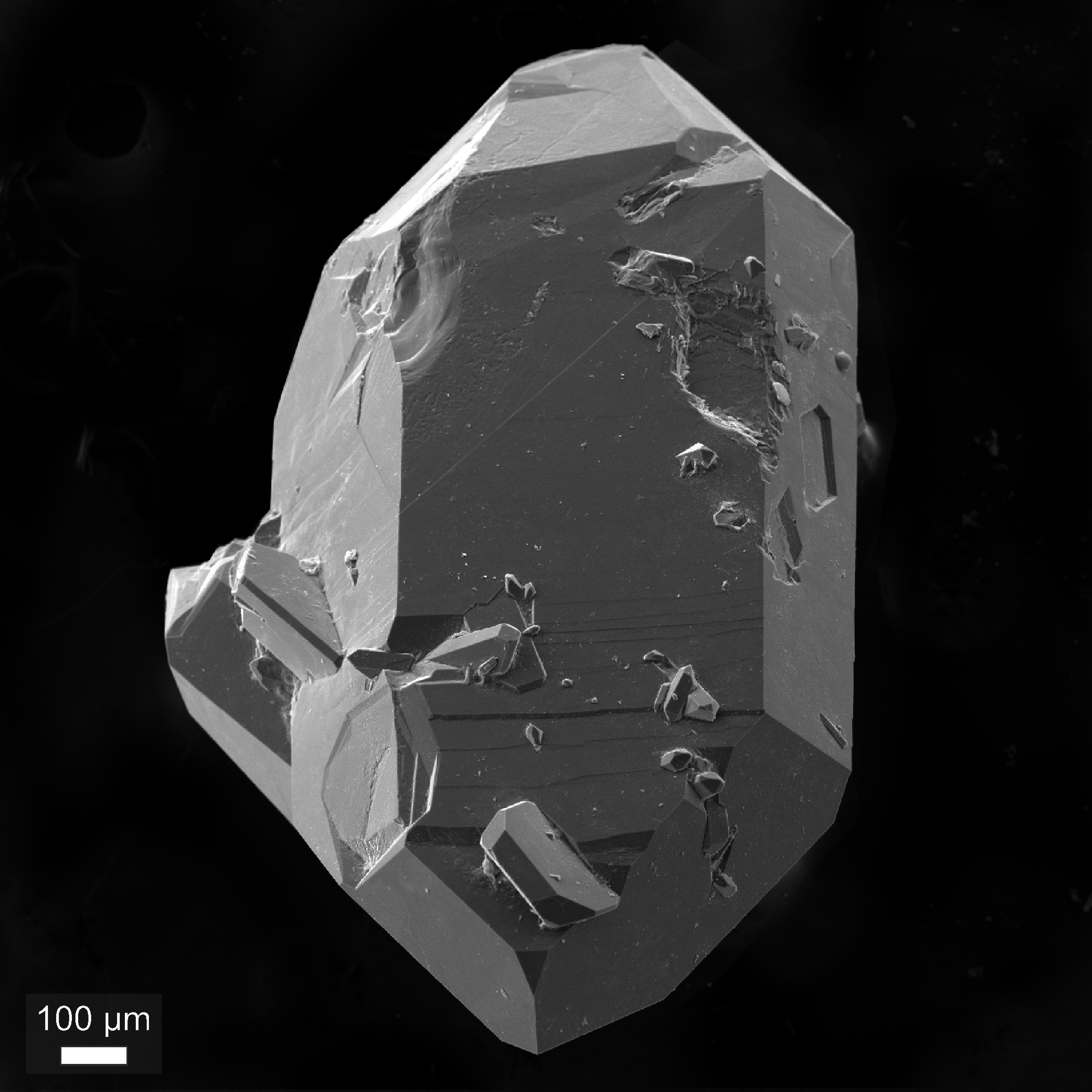 SE image of quartz crystal from Pervomaysko-Zverevscoe gold deposit, Middle Ural. On the faces are visible small crystals of crocoite and quartz.